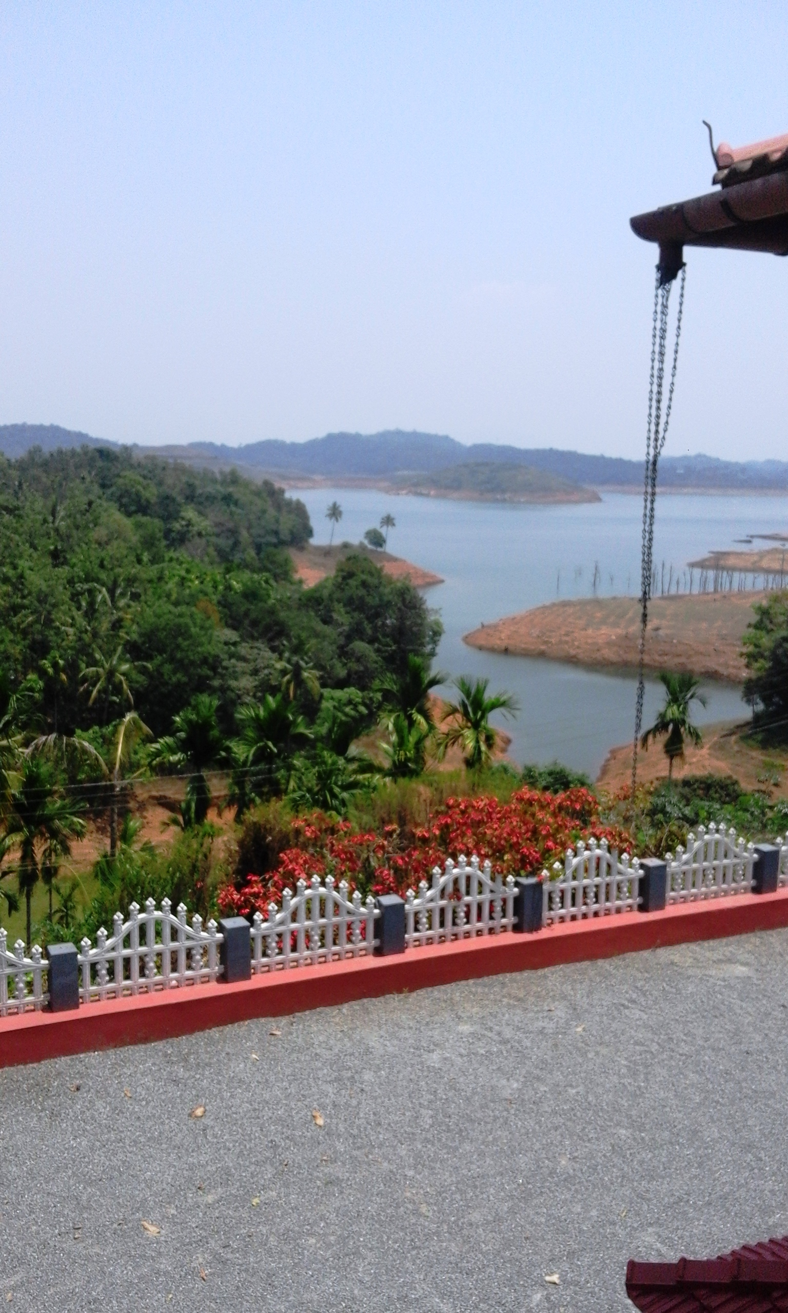 Wayanad District, Kerala province, India